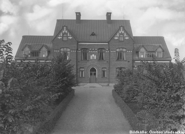 The hospital for infectious diseases, Örebro, Sweden